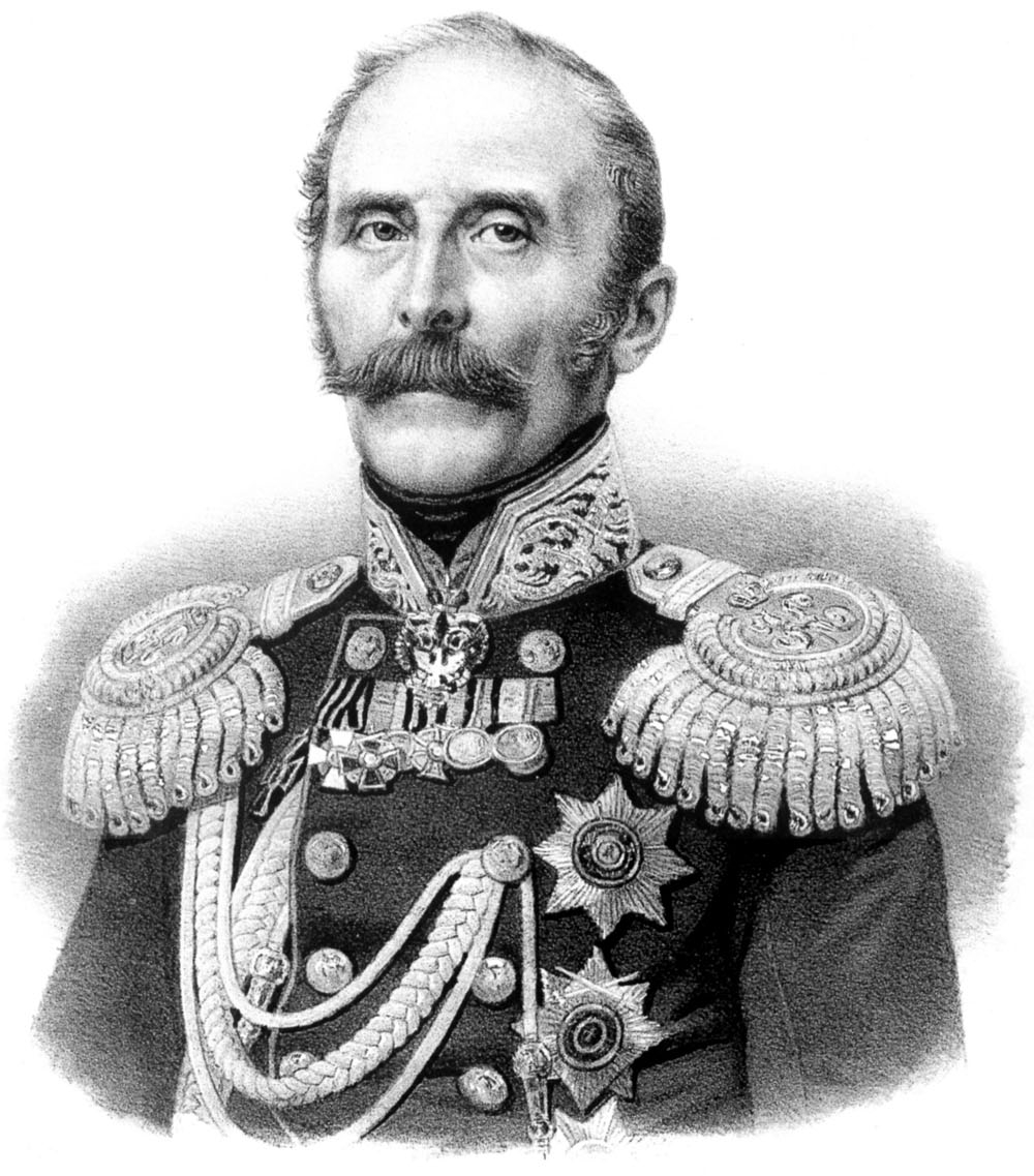 Liven, Vilgelm Karlovich